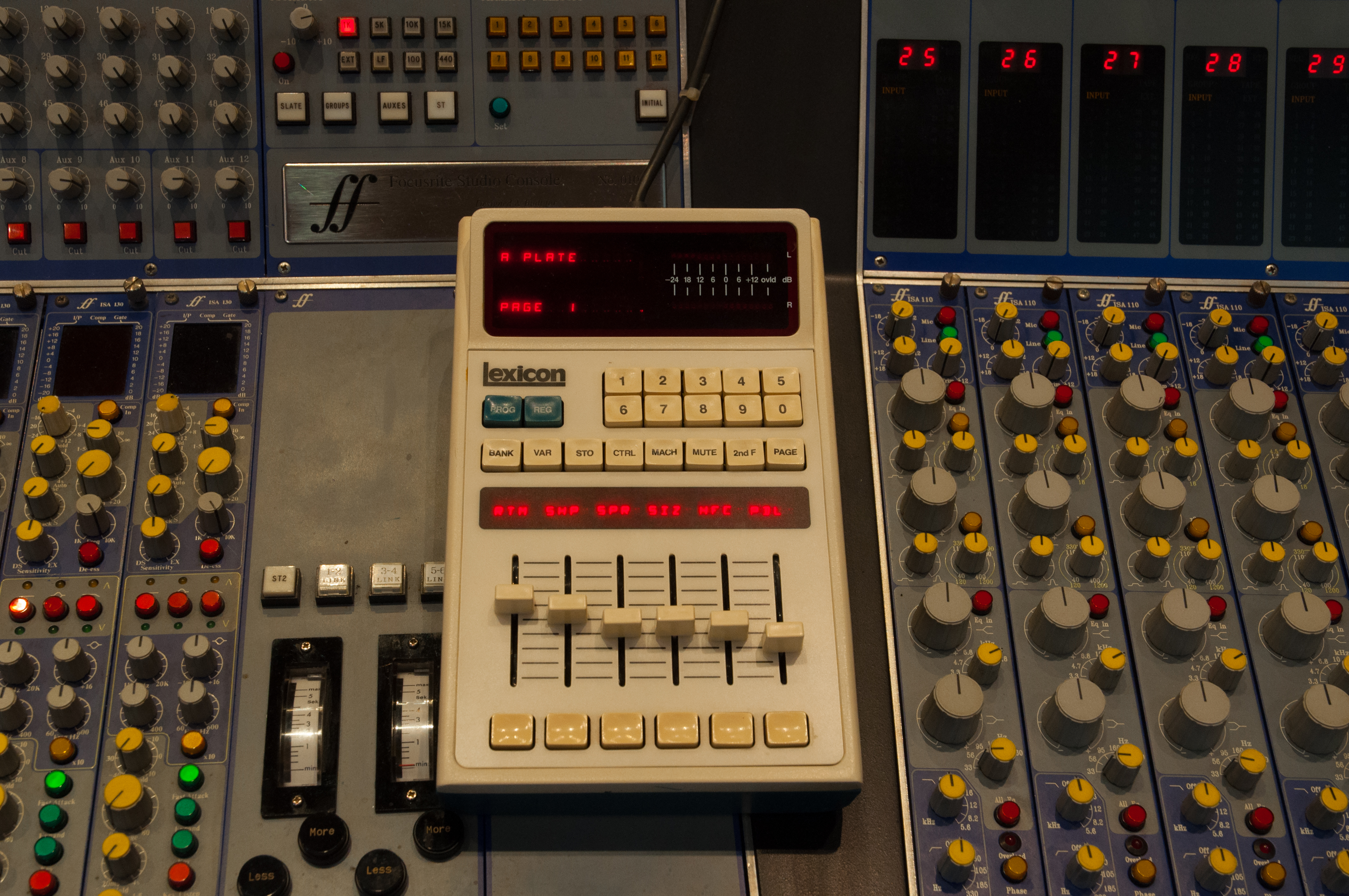 Lexicon 480L LARC @ Sound City Setagaya DSC 1812